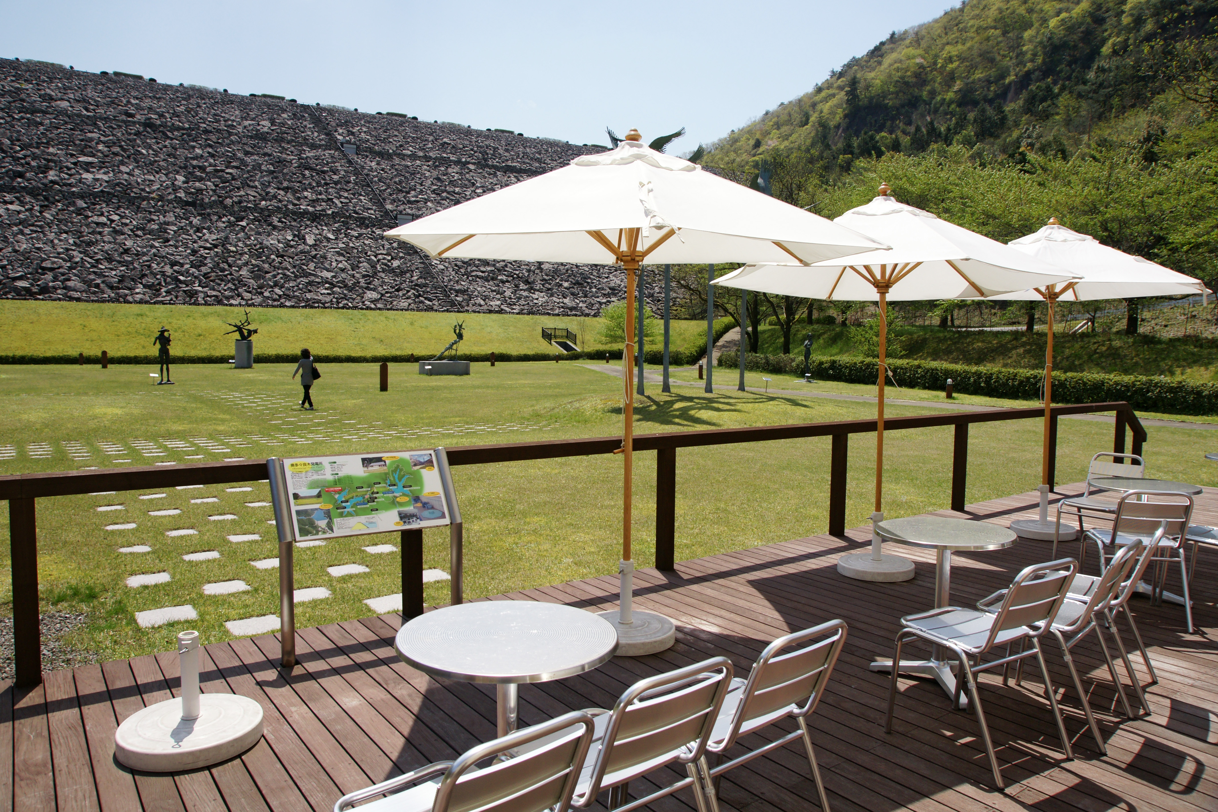 Asago Art Village Museum in Asago, Hyogo prefecture, Japan.